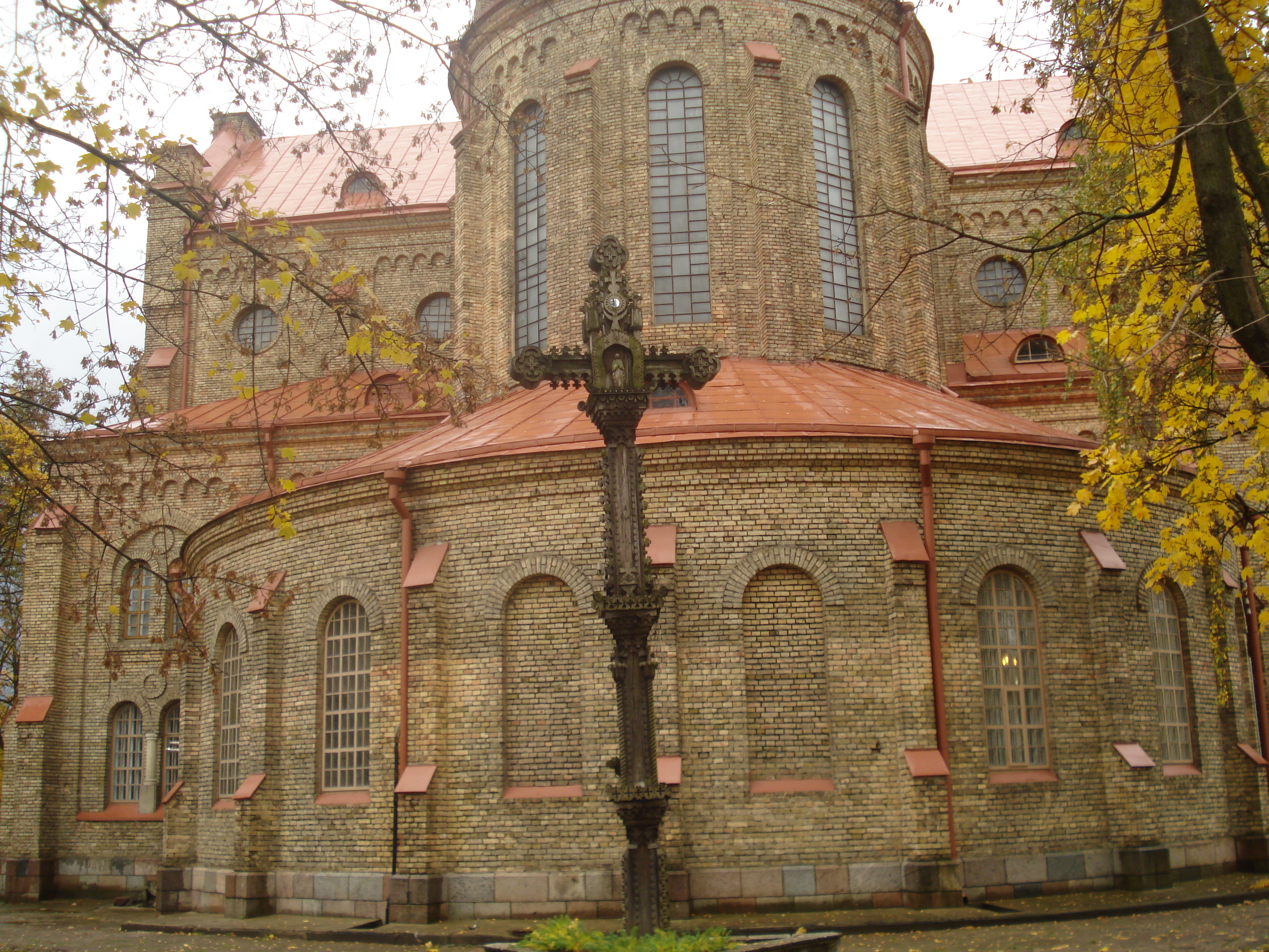 Church of the Immaculate Conception of Blessed Virgin Mary in Vilnius (Sėlių g. 17). Apse